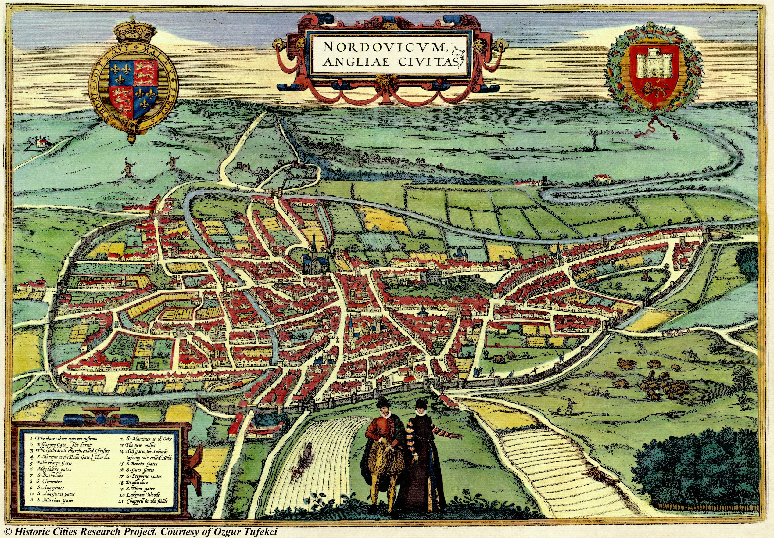 Map of Norwich from the Civitates Orbis Terrarum, published in Cologne in 1572-1617.